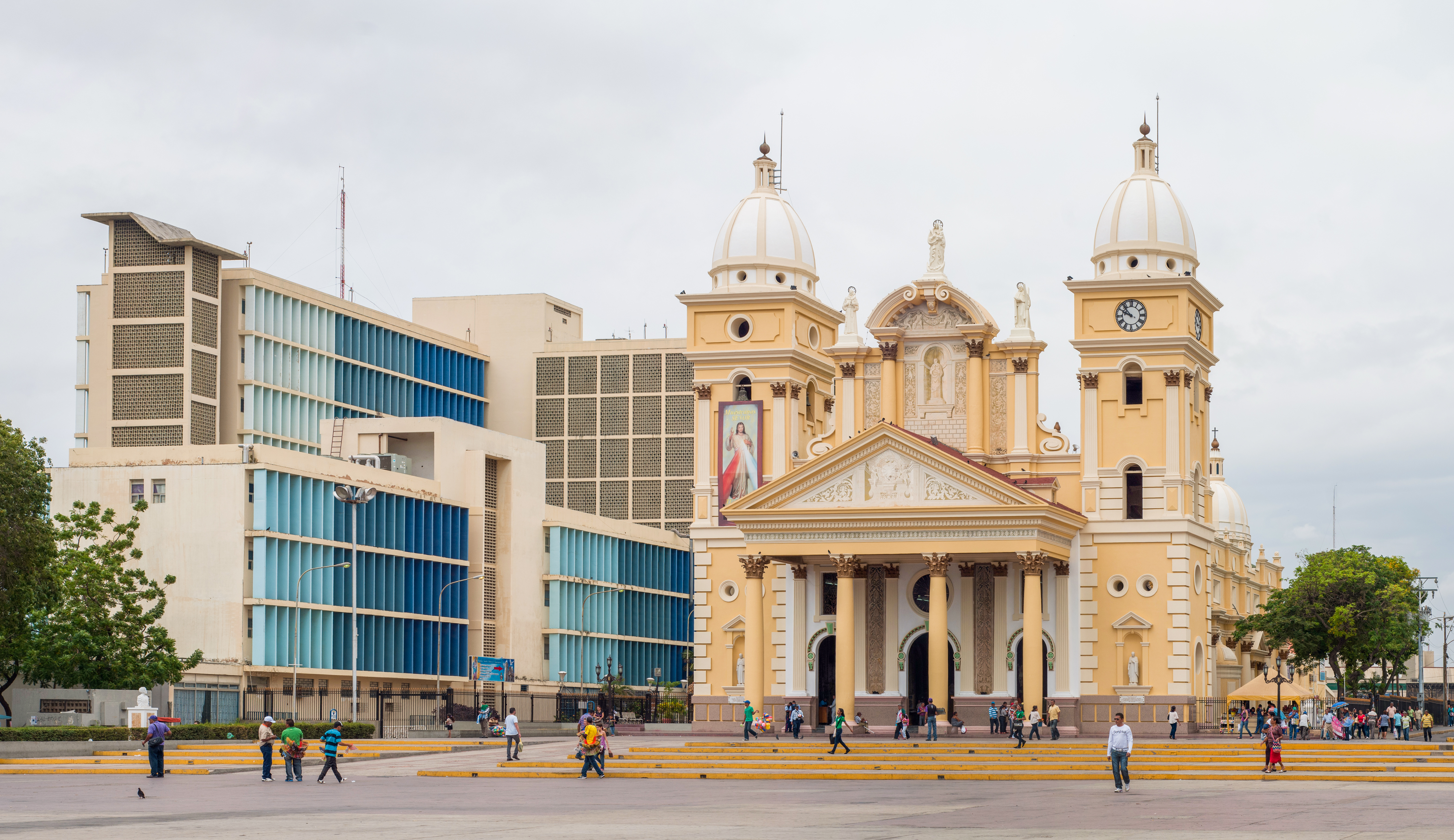 Basilica Our Lady Chiquinquira